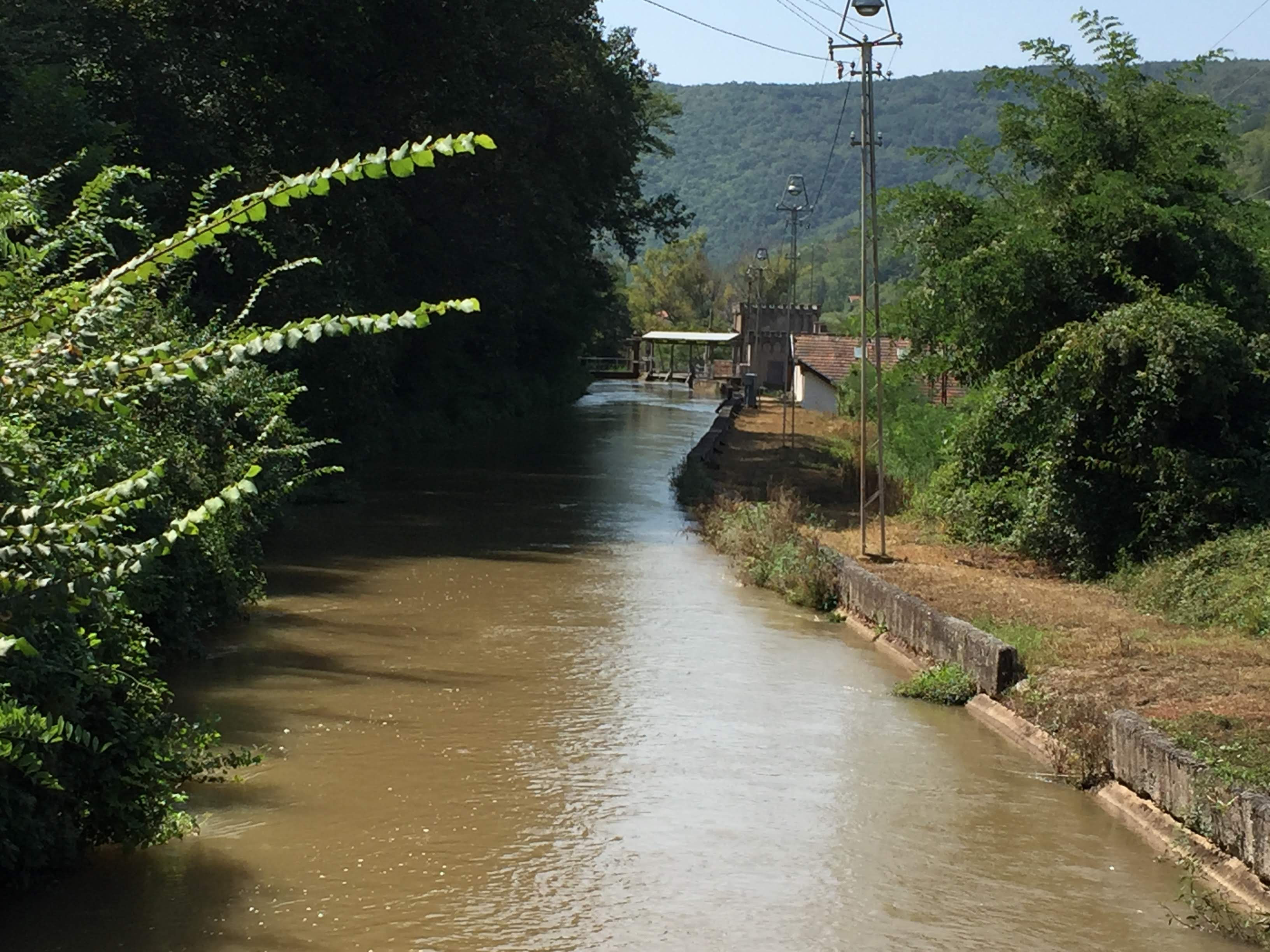 Sićevo Gorge: Small hydro power plant "Sveta Petka", Serbia